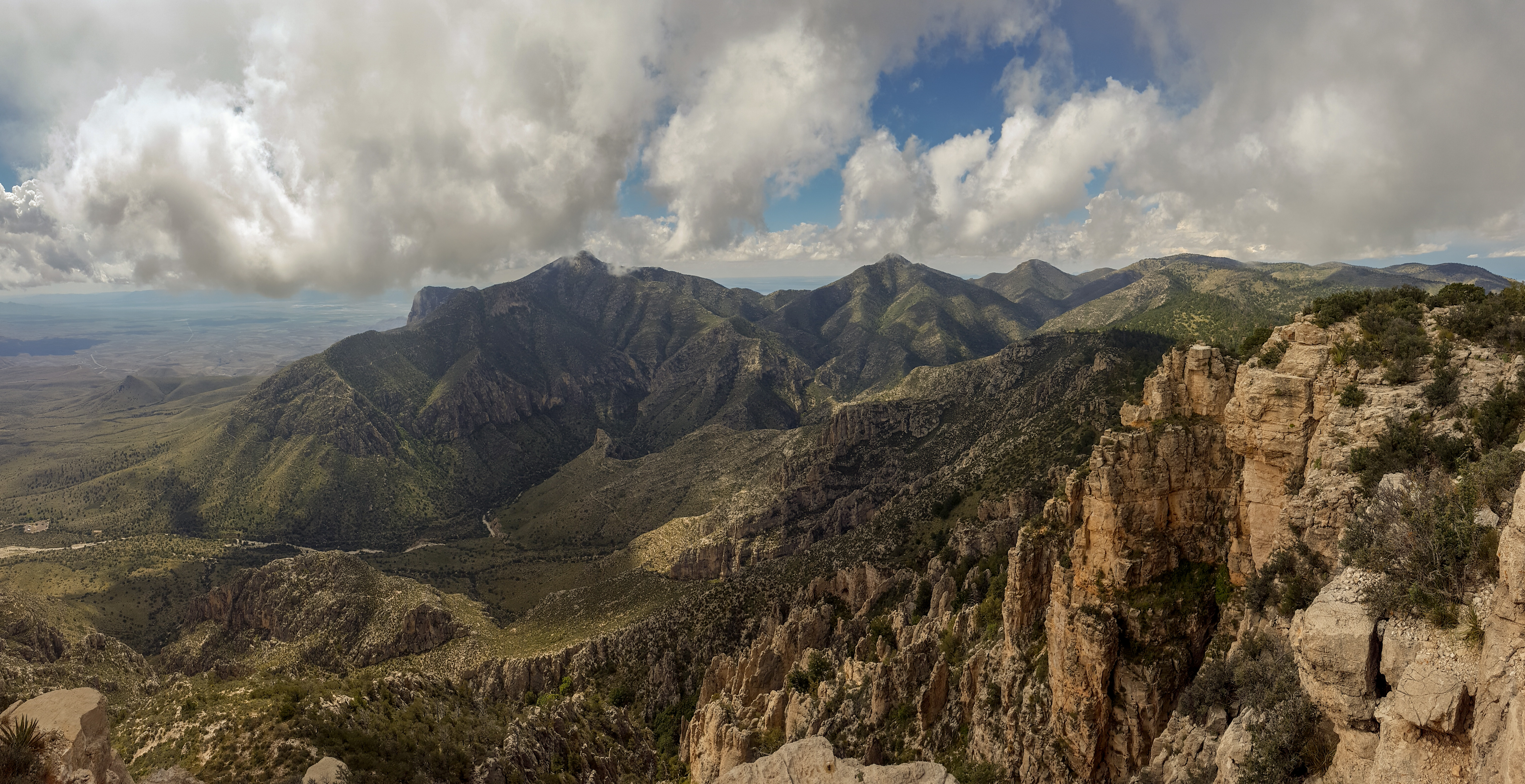 This picture, taken from Hunter Peak in Guadalupe Mountains National Park, captures Guadalupe Peak in the center-left of the frame.